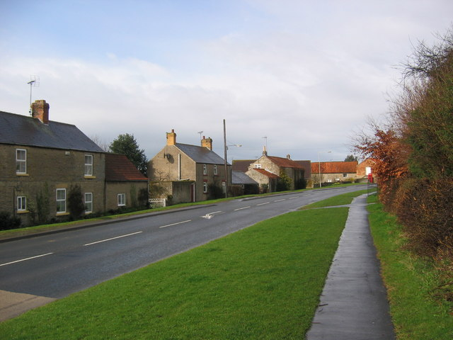 The A170 road through Snainton, North Yorkshire